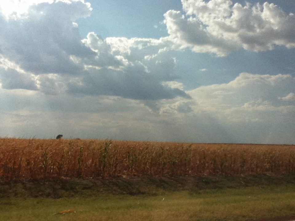 A wheat field off of Highway 74 in Garfield County, Oklahoma.